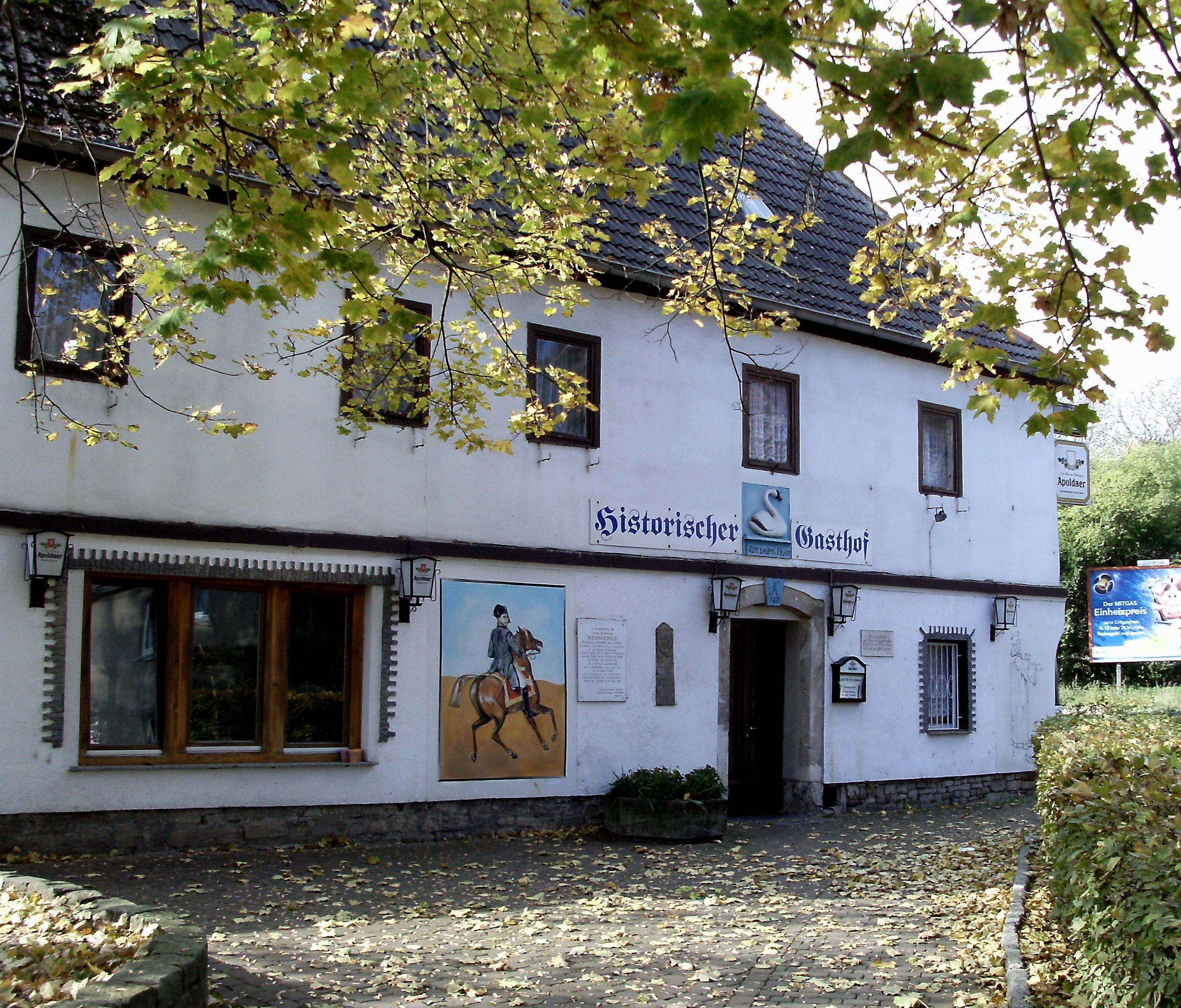 The historic White Swan Inn in Rippach (Lützen, district of Burgenlandkreis, Saxony-Anhalt)